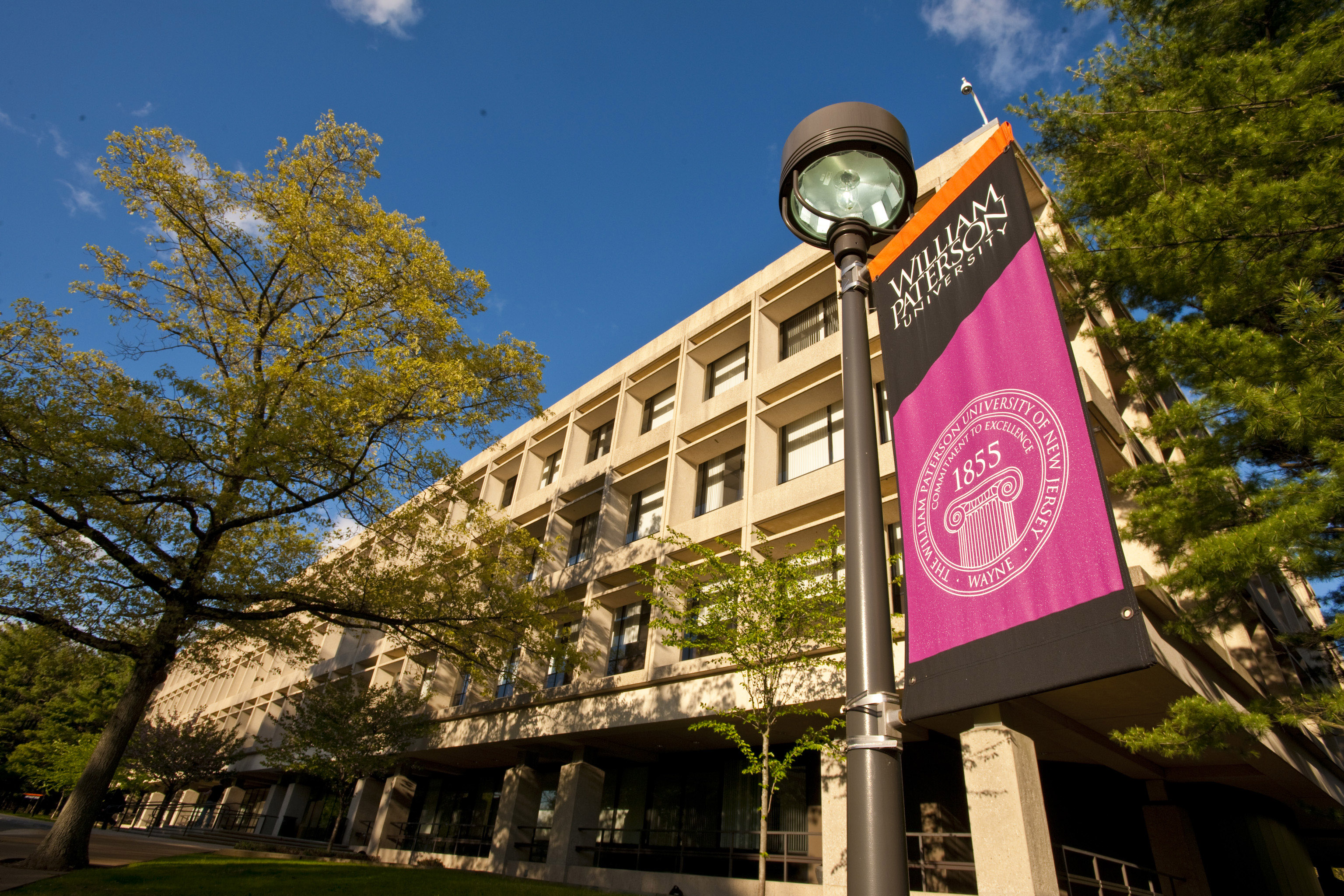 William Paterson University's 1600 Valley Road building located at 1600 Valley Road, Wayne, NJ